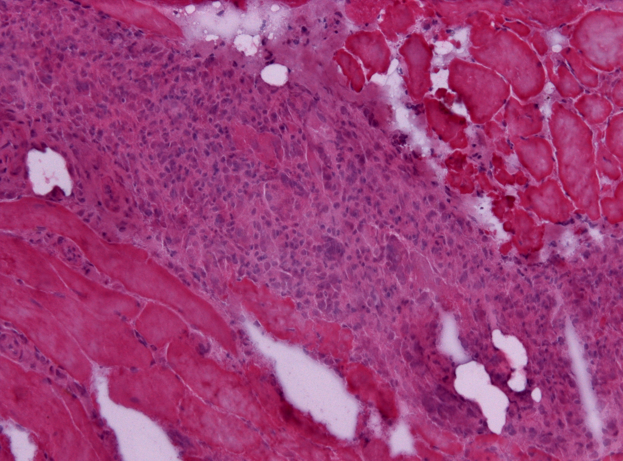 Muscle biopsy with granulomatous inflammatory changes